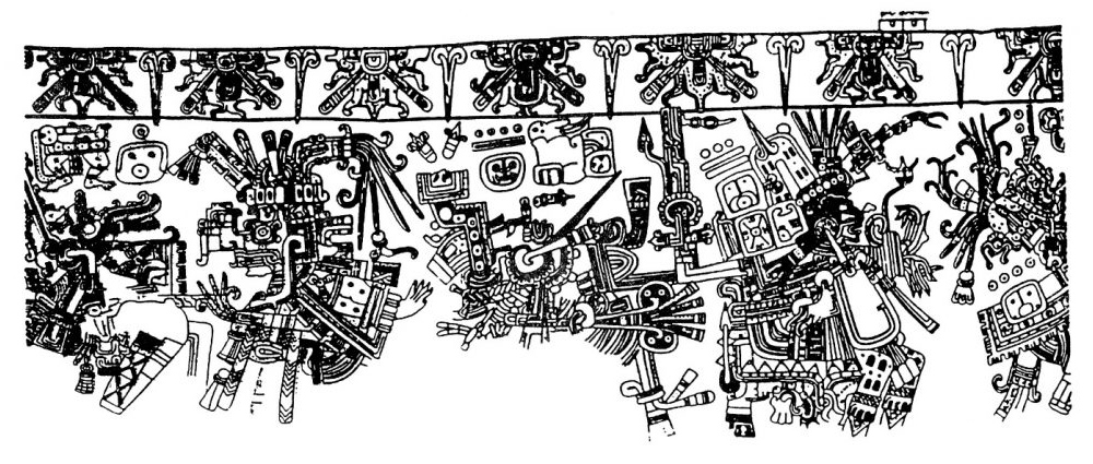 Drawing of a mural at Santa Rita. First published by Thomas Gann in 1900 (Pl. XXIX).